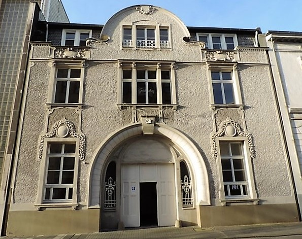 Villa Schmitz-Scholl - historic foundation house of the Tengelmann - founder - family Luise and Wilhelm Schmitz-Scholl in the heart of Muelheim on the River Ruhr , Ruhrgebiet, Germany